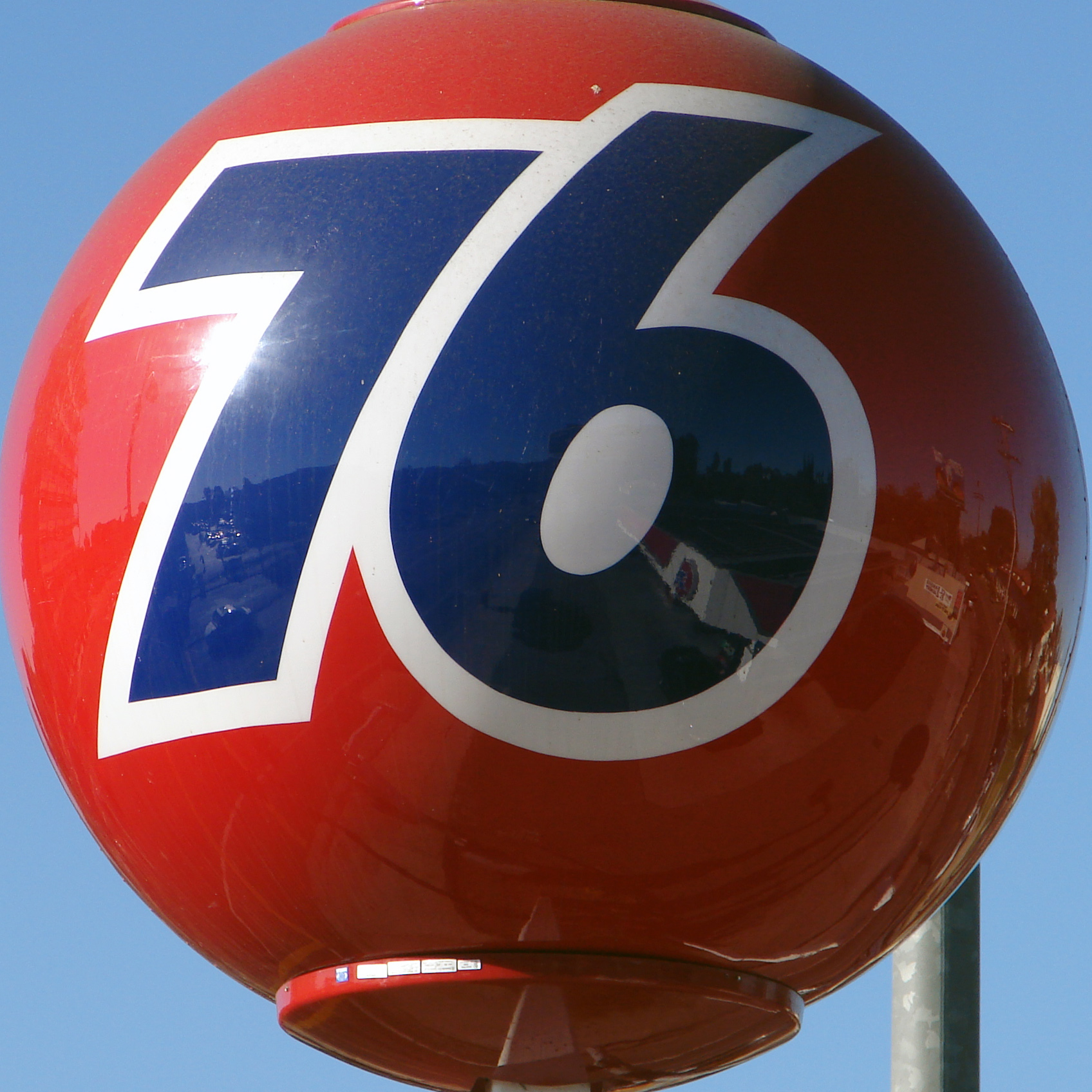 The "76 ball" for Union 76, a chain of gas stations located in the United States.